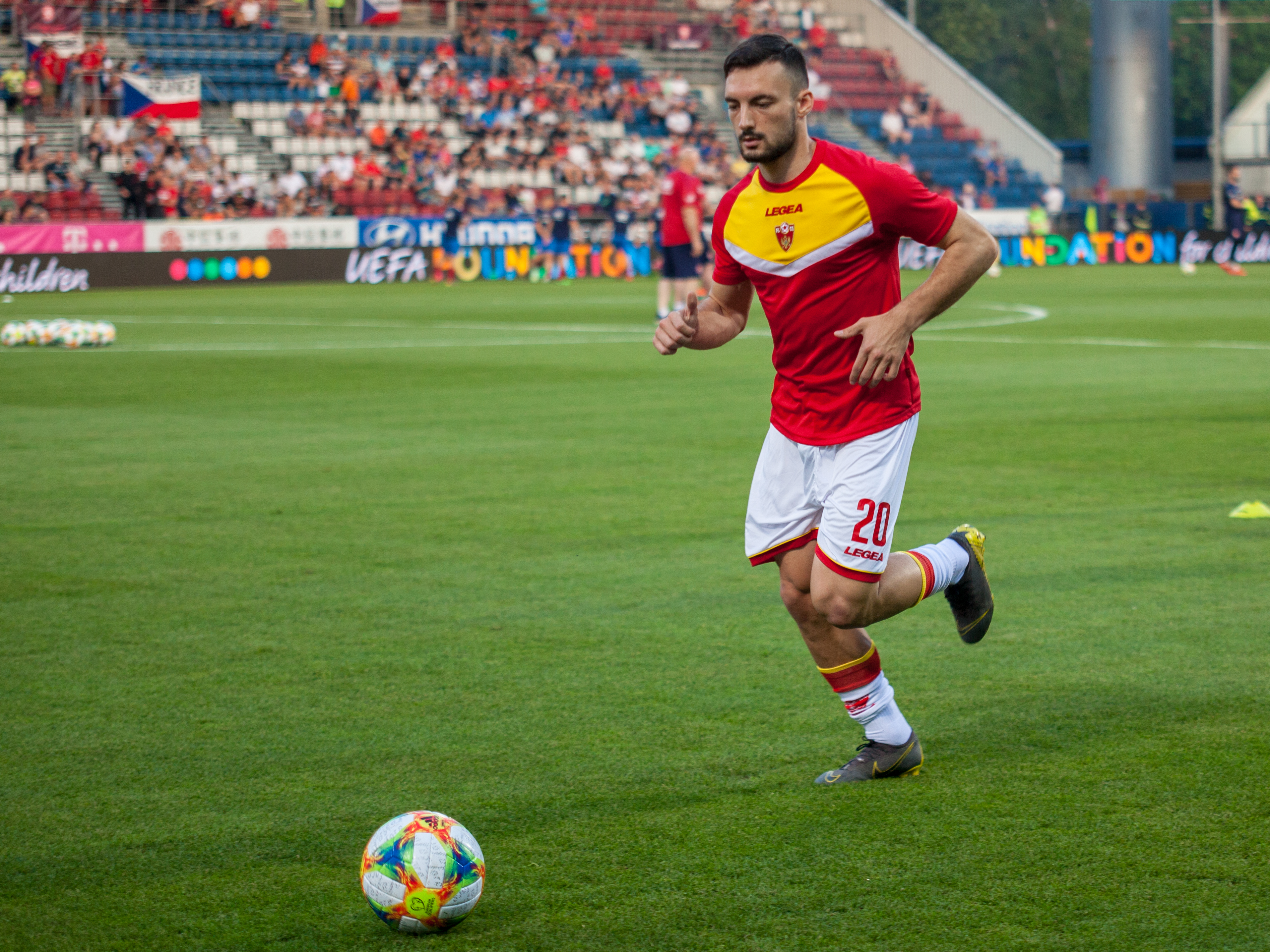 Sead Haksabanović at EURO 2020 Qualifying Round Czech Republic-Montenegro (10/6/2019, Ander Stadium, Olomouc) Personality rights warningAlthough this work is freely licensed or in the public domain, the person(s) shown may have rights that legally restrict certain re-uses unless those depicted consent to such uses. In these cases, a model release or other evidence of consent could protect you from infringement claims.